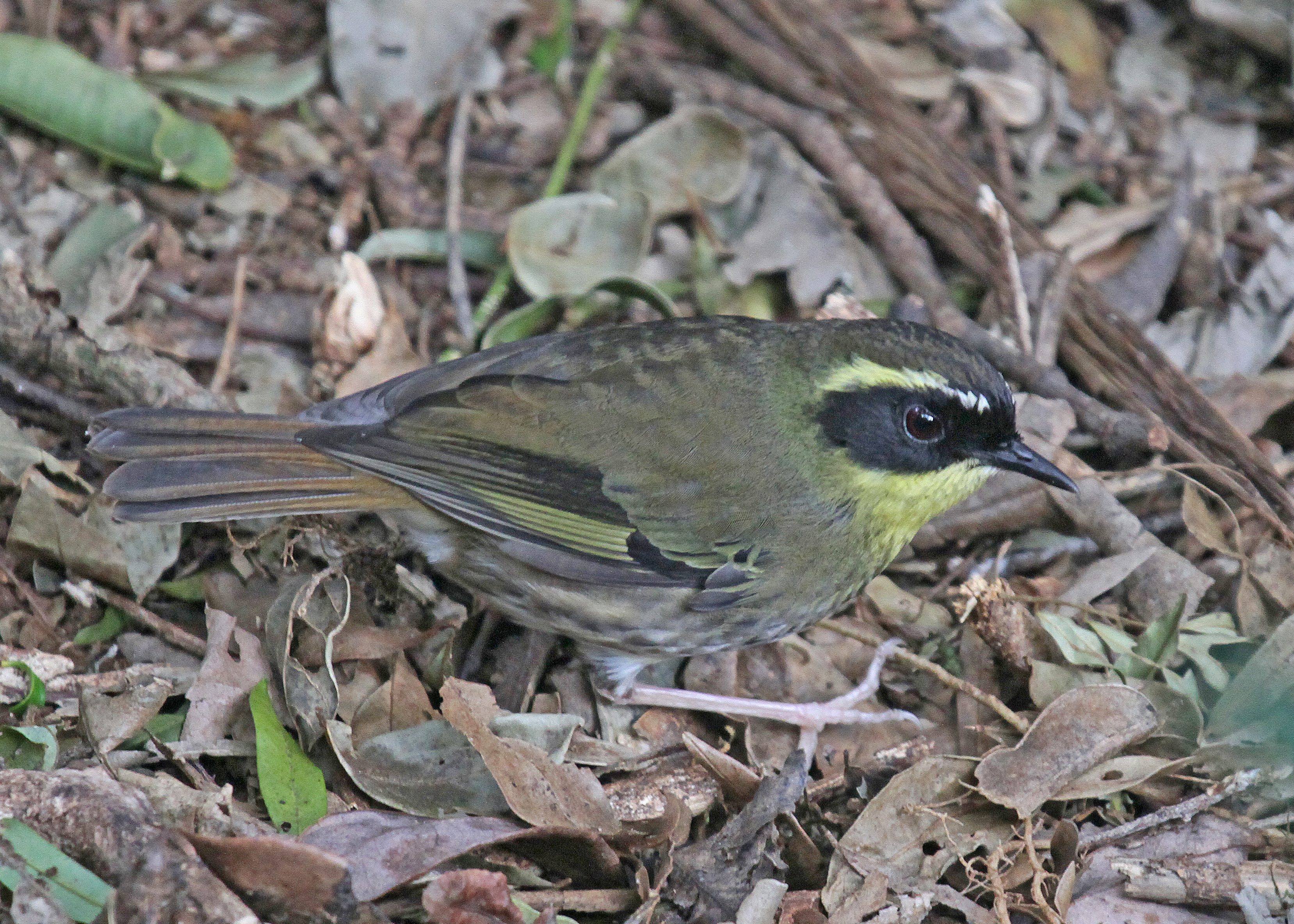 photo of Yellow-throated Scrubwren